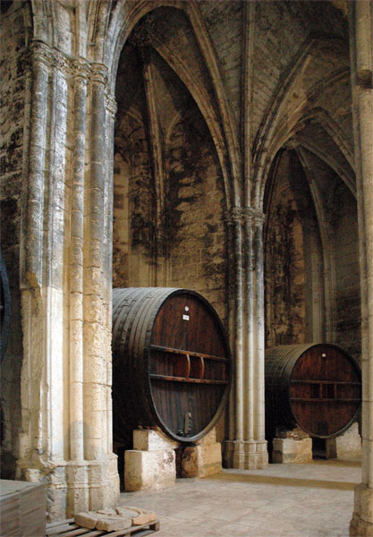 Valmagne abbey. France